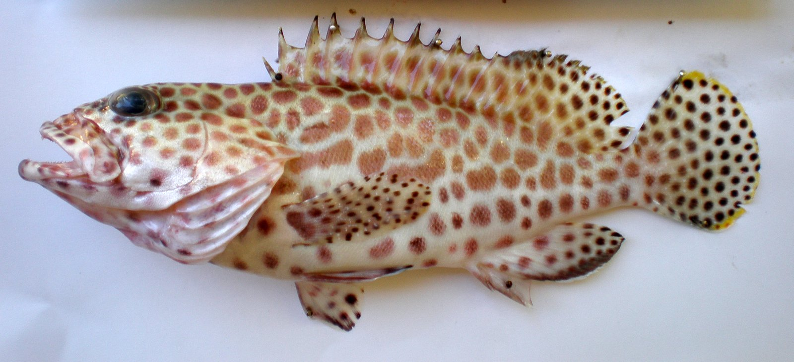 Epinephelus merra (Serranidae, Epinephelinae). Locality: near Récif Toombo, off Nouméa, New Caledonia, coordinates 22°33'S, 166°28'E, depth 20 metres. Fork Length 203 mm, Weight 110 grams, date 2009-09-16.